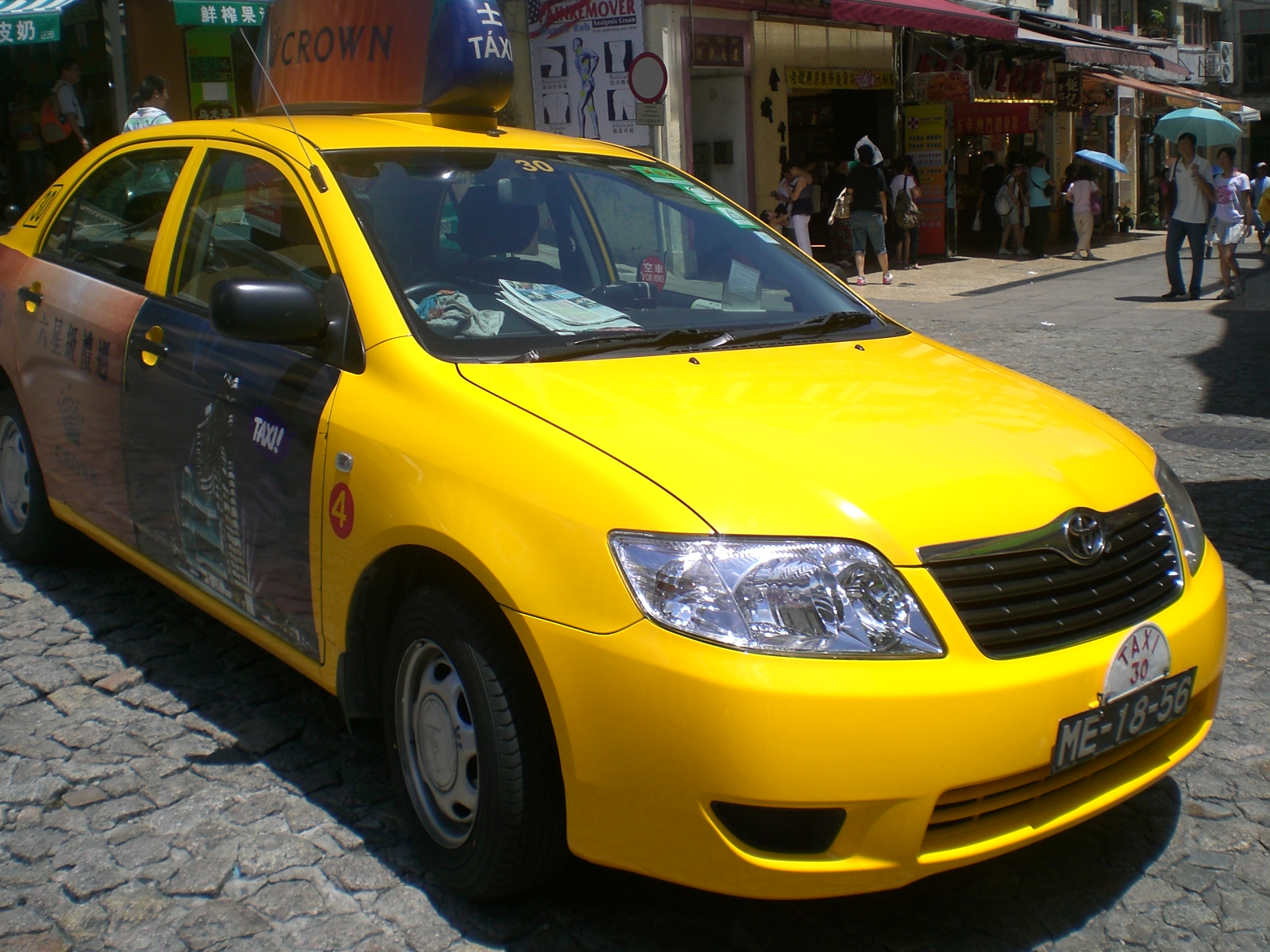 Yellow taxi in 耶穌會紀念廣場, Largo da Companhia de Jesus, Macau. Author= Mo707